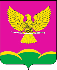 Coat of arms of Novotitarovskaya, Krasnodar krai, Russia